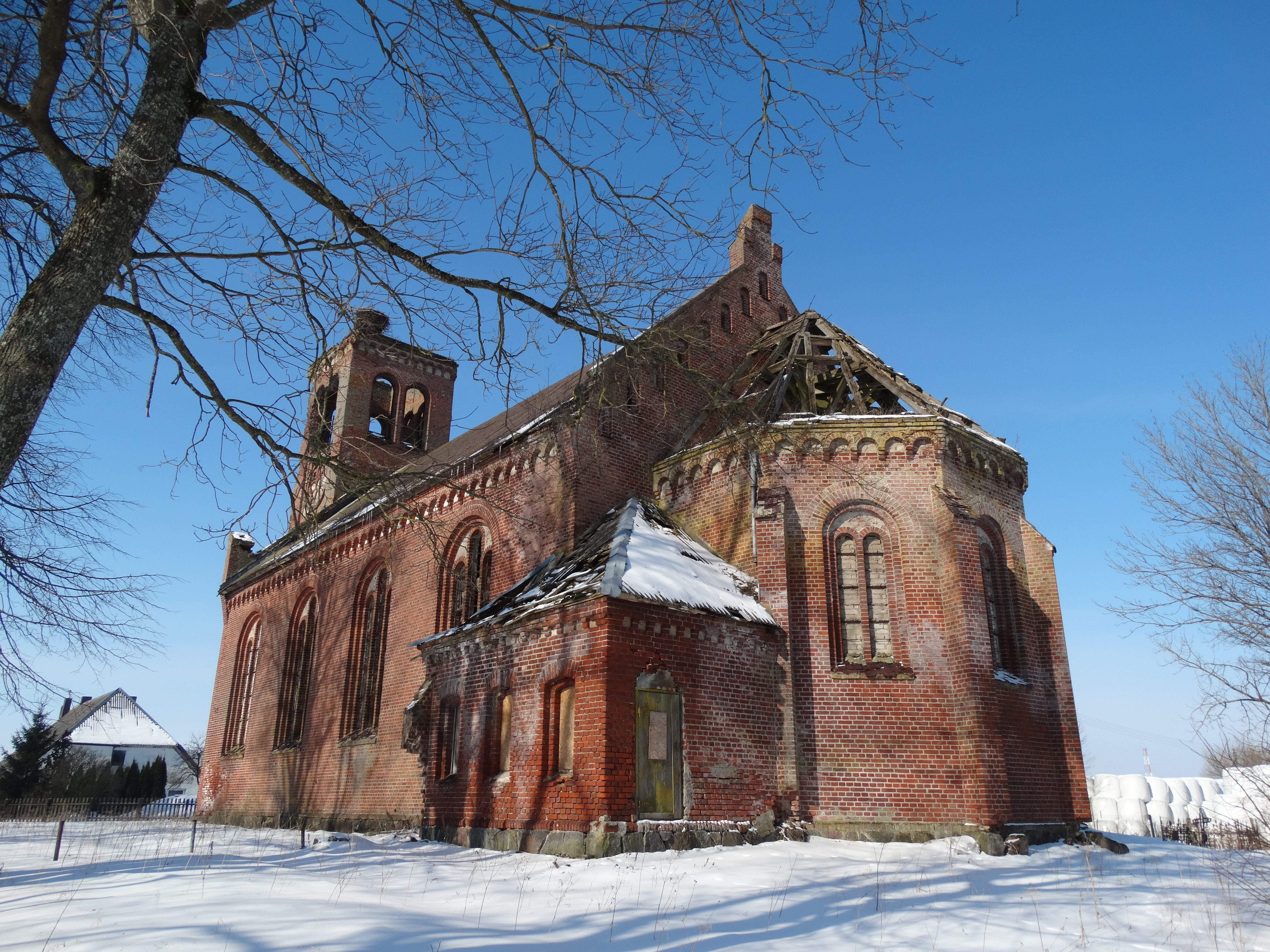 Lutheran Church, Plaškiai, Pagėgiai Municiality, Lithuania